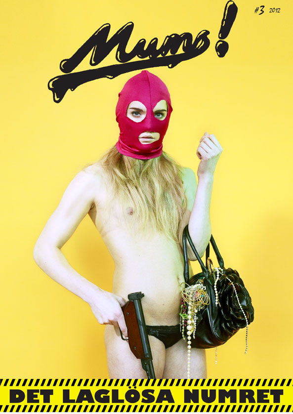 Cover for Mums #3